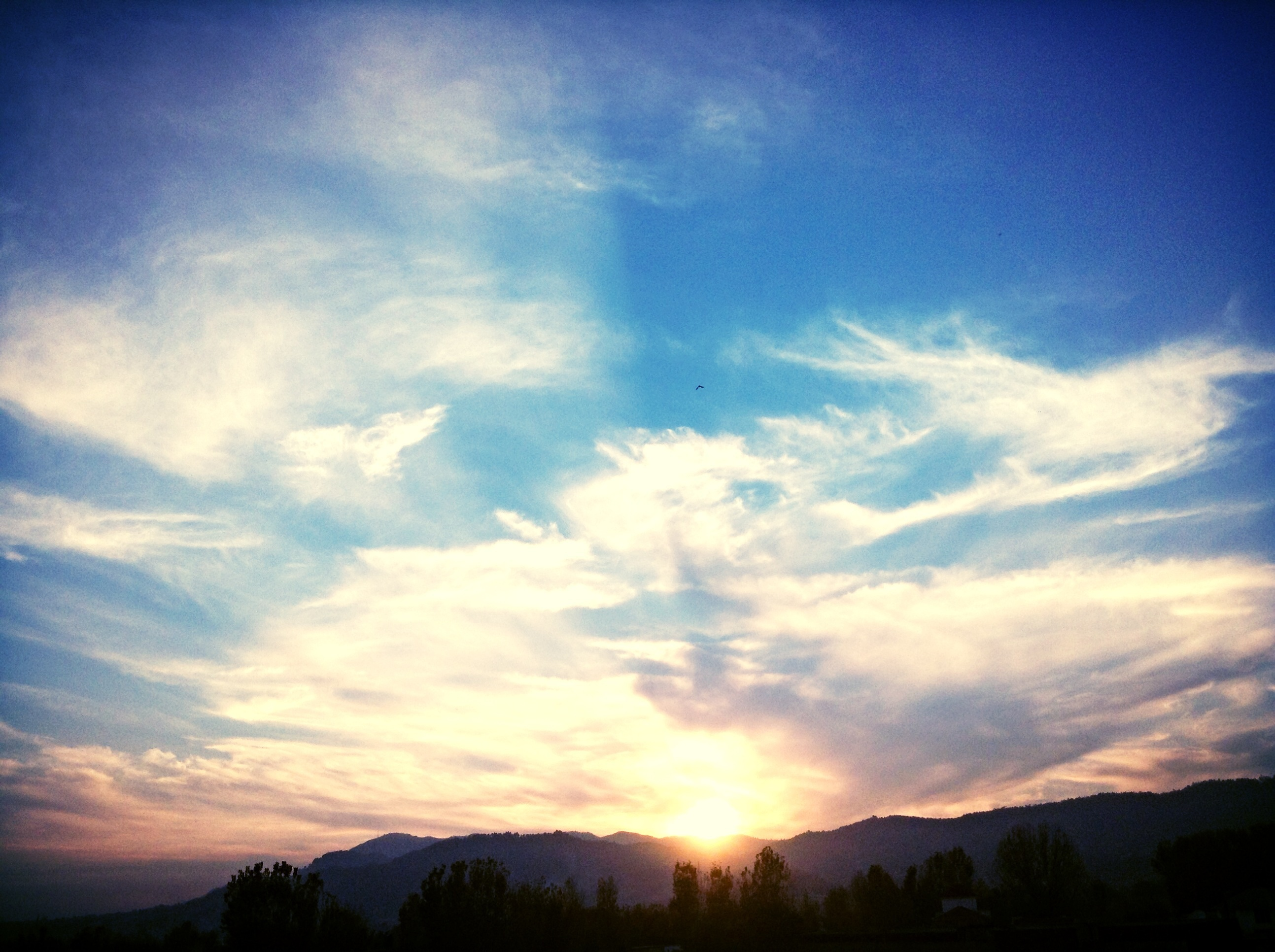 Sunset scene from Abbottabad city.